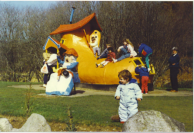 Storybook Glen, Maryculter. The park was built with funds from the local Anderson's Roses company. It is in the Crynoch Burn valley and geared to small children with its fairytale theme exhibits.